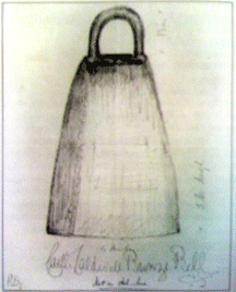 Sketch of St. Nennid's Bell from 1877, last time the provenance of this object was know.